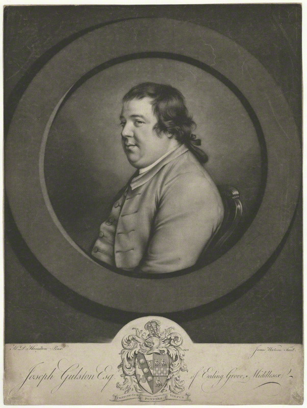 by James Watson, after Hugh Douglas Hamilton, mezzotint, published 1 April 1776